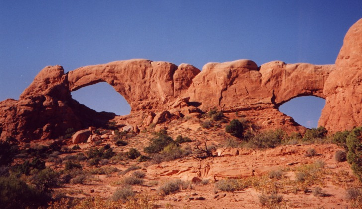 larger image of my photo of North and South Windows arches taken Spring 1998